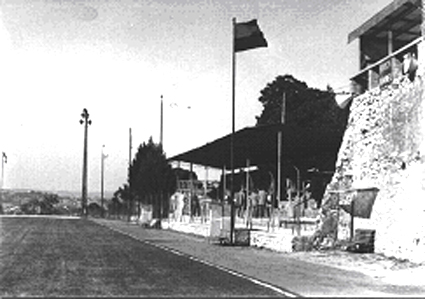 La tribuna del Vecchio S. Girolamo.